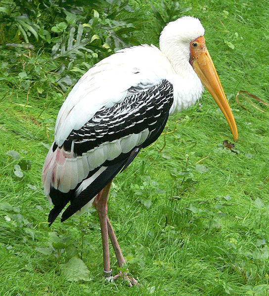 Mycteria leucocephala A painted stork. Taken at Disney's Animal Kingdom by Raul654 on January 16, 2005.